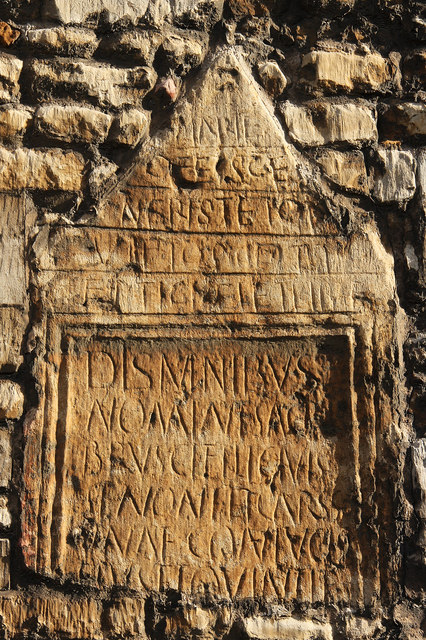 Dedication stone set into the wall of the west tower of St Mary-le-Wigford parish church, Lincoln, England. It is a re-used Roman tombstone with a later Old English inscription that translates to "Ertig had me built and endowed to the glory of Christ and St Mary".